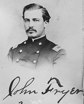 Major John Fryer, 43rd New York Infantry Regiment